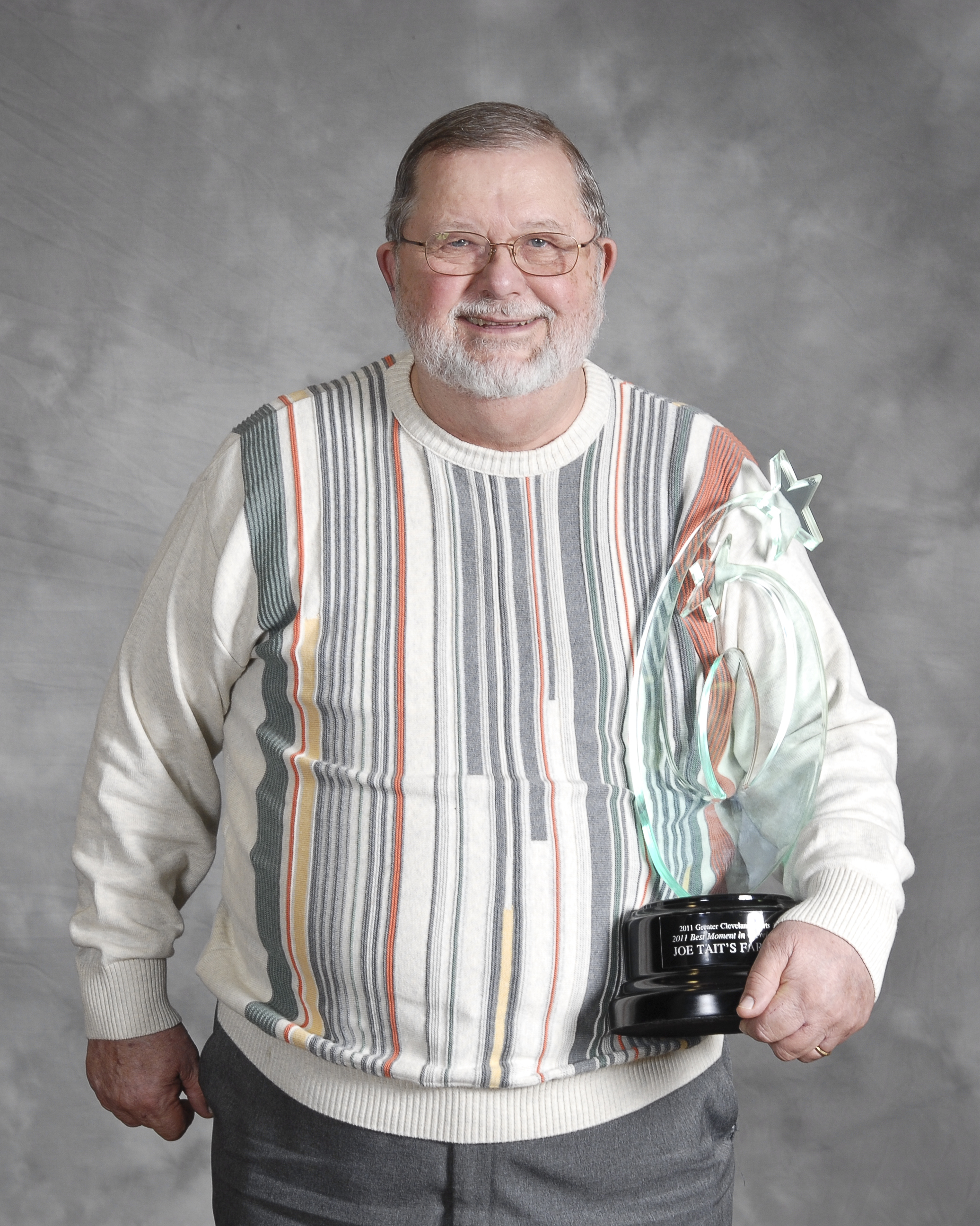 Joe Tait is an American sports broadcaster, who called the radio play by play for the Cleveland Cavaliers of the NBA and both TV and radio for the Cleveland Indians of Major League Baseball.